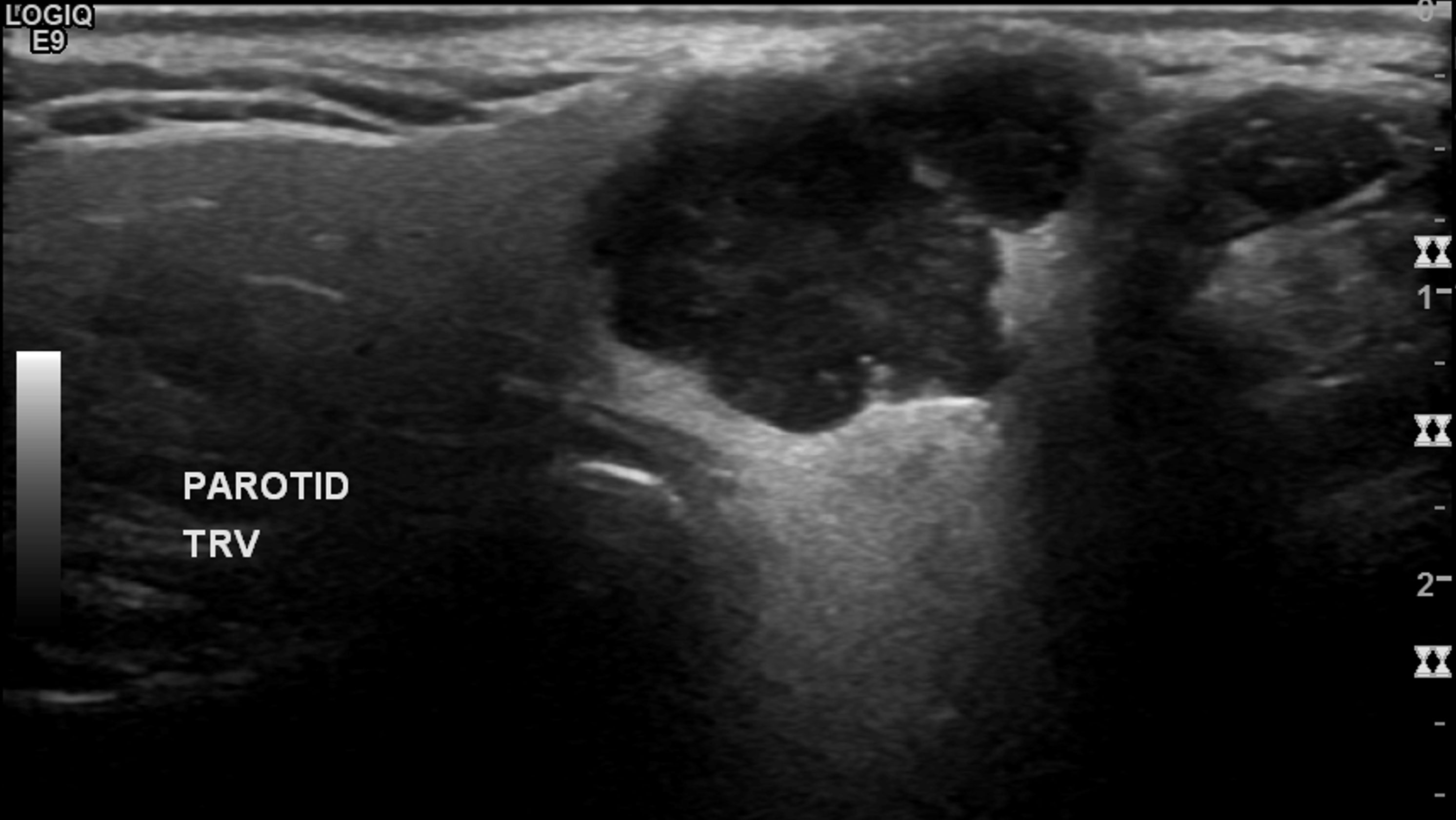 pleomorphic adenoma of parotid (cytology confirmed) in ultrasound